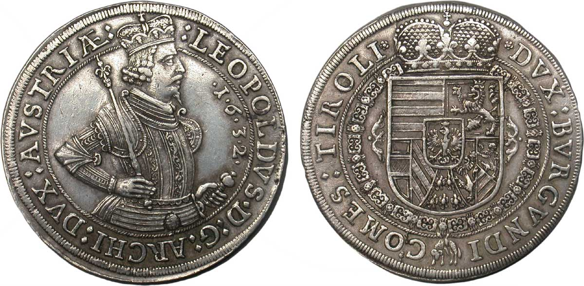 Thaler à l'effigie de Léopold V , 1632 Description avers : Buste de Léopold à droite, en armure, la tête couronnée coupant la légende en haut, tenant de sa main droite un sceptre, sa main gauche tenant la poignée de son épée ; devant .1.6.3.2. .